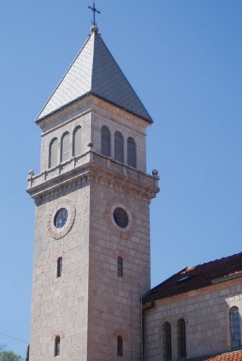 St. Michael church , Drinovci